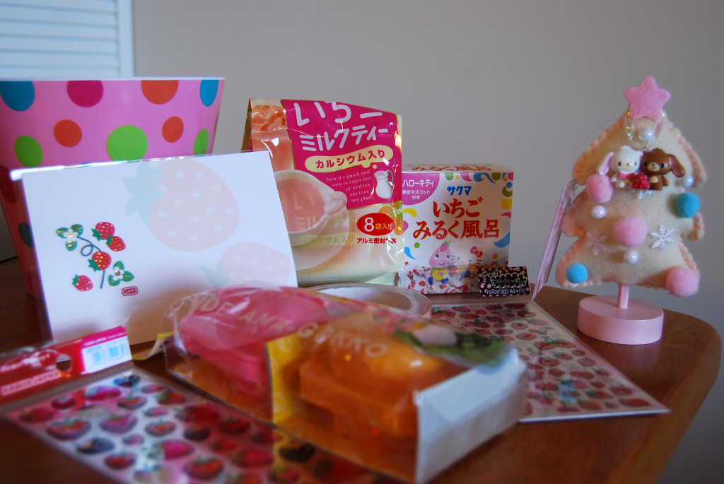 pretty things!